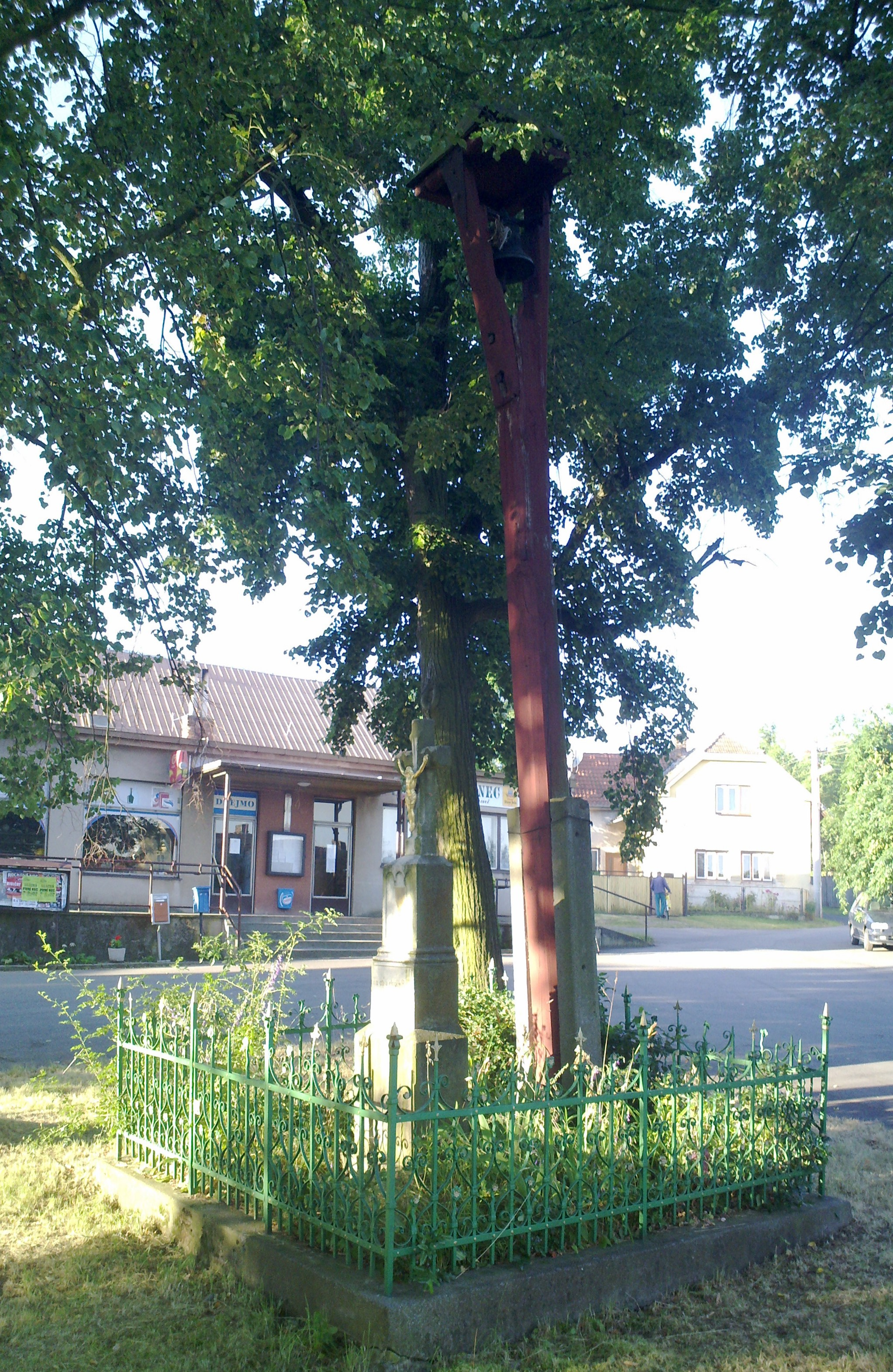 Kampanile in Morašice